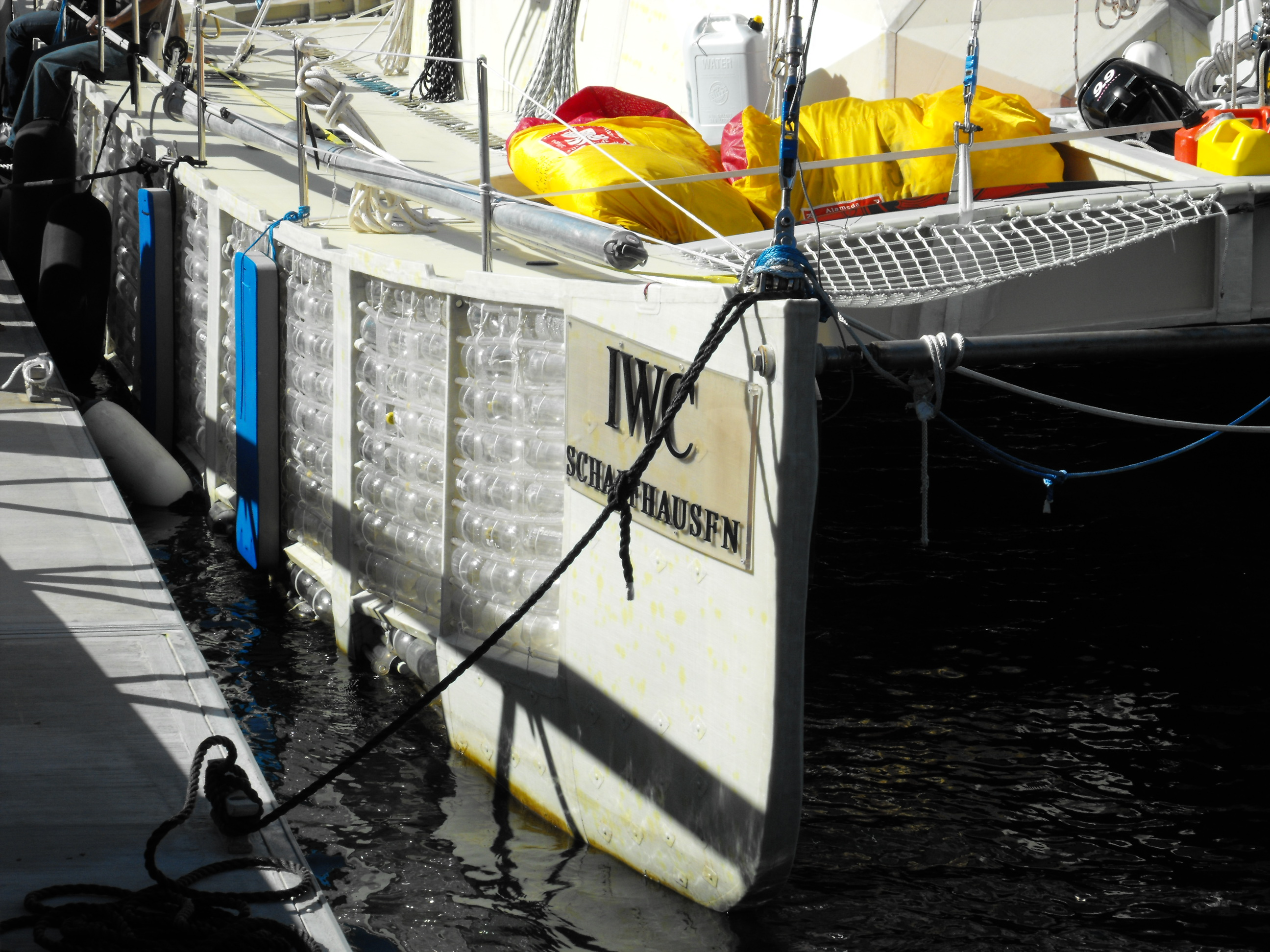 Closeup of the starboard hull section of the catamaran Plastiki, showing the PET bottles used for floatation